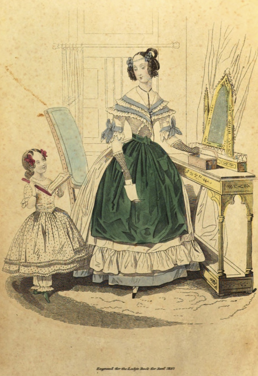 Hand-colored fashion plate published in Godey's Lady's Book, January 1837